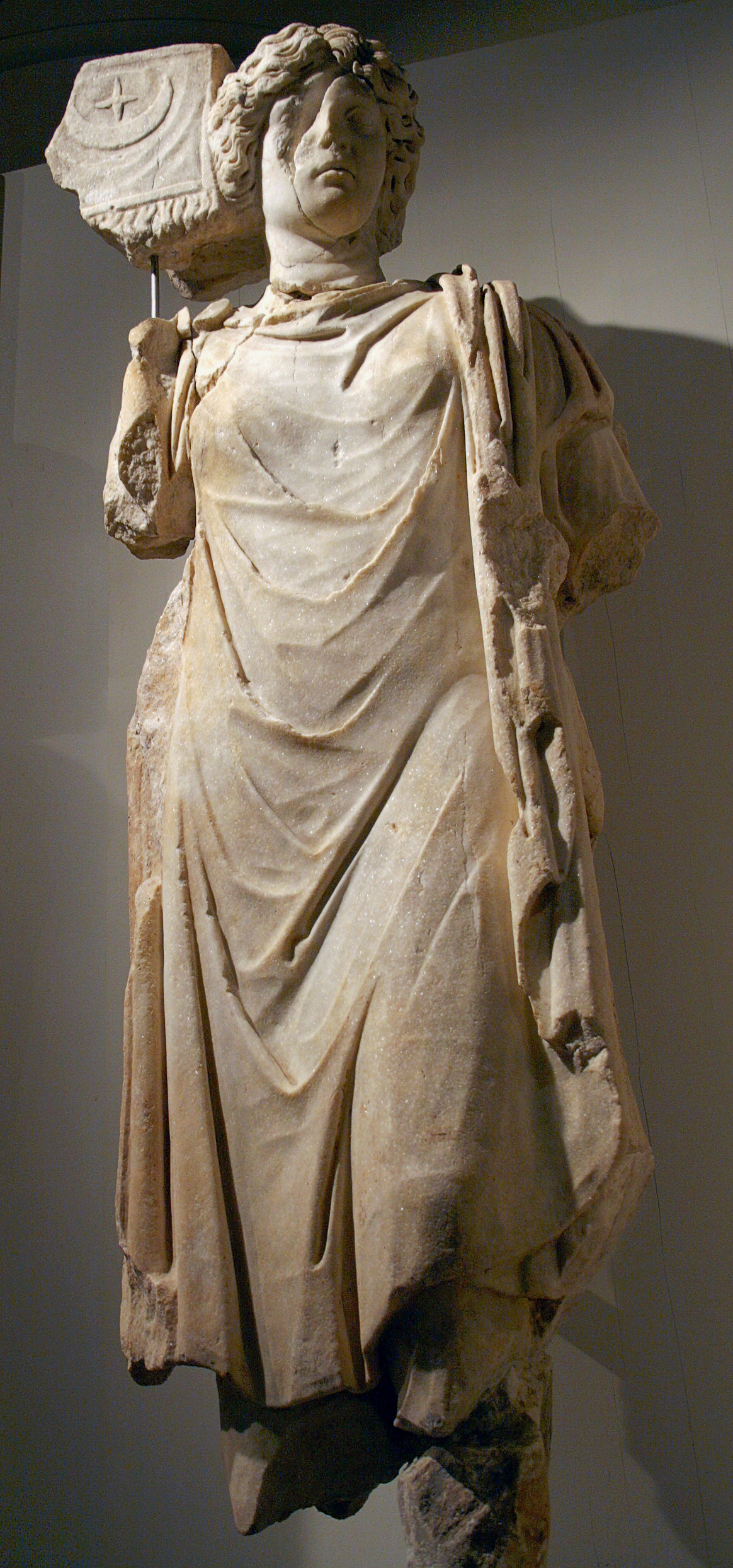 Statue of a woman carrying a vexillum; from Ephesos (Ephesos-Museum, Hofburg, Vienna)